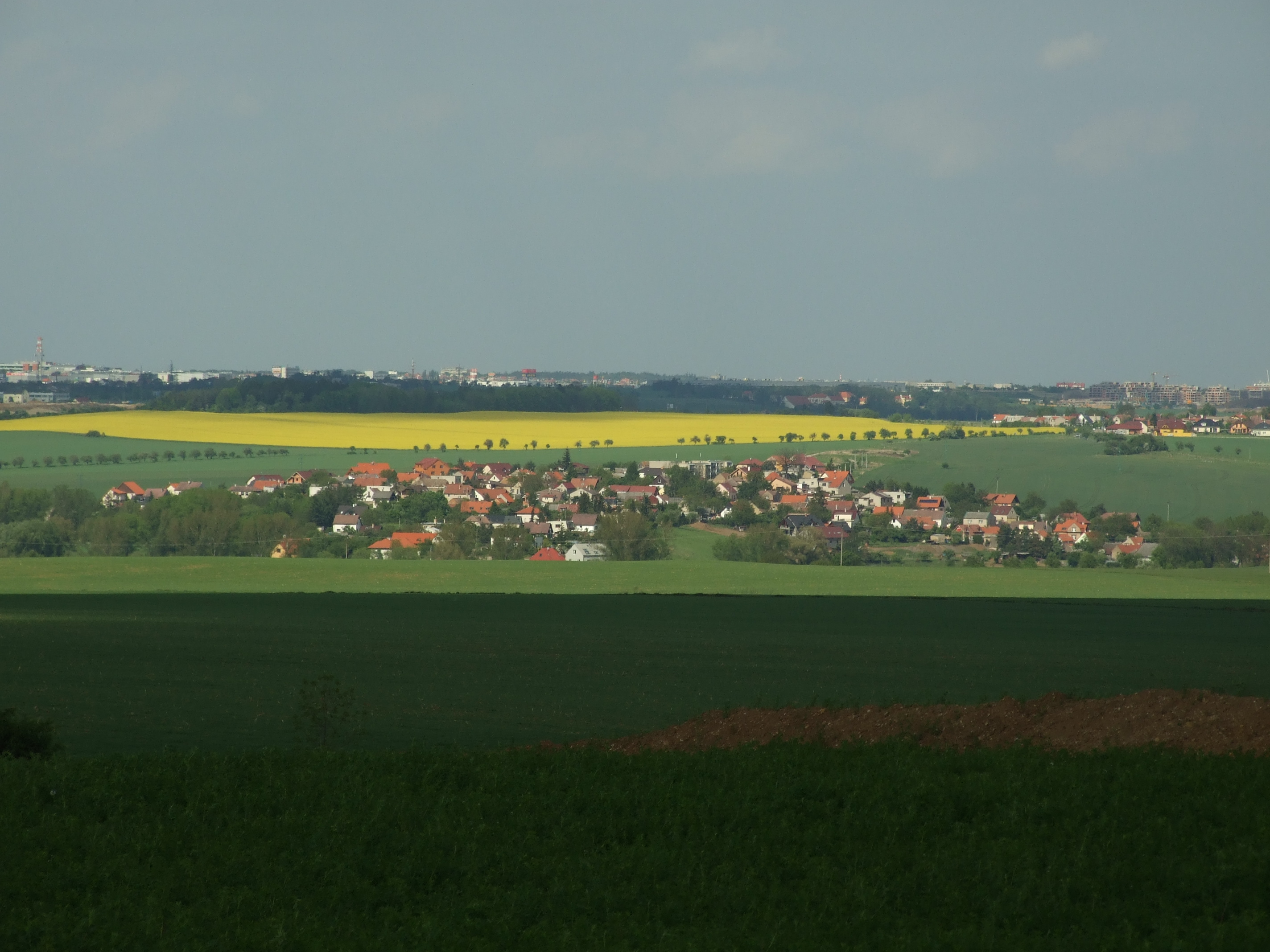 View of Tachlovice from Vysoký Újezd in Central Bohemian region, CZhelp